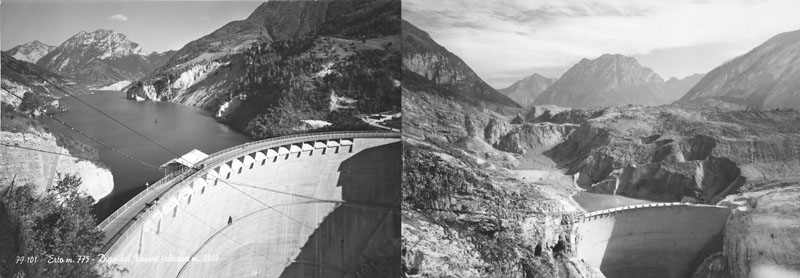 Vajont Dam before and after disaster in 1961 and 1963